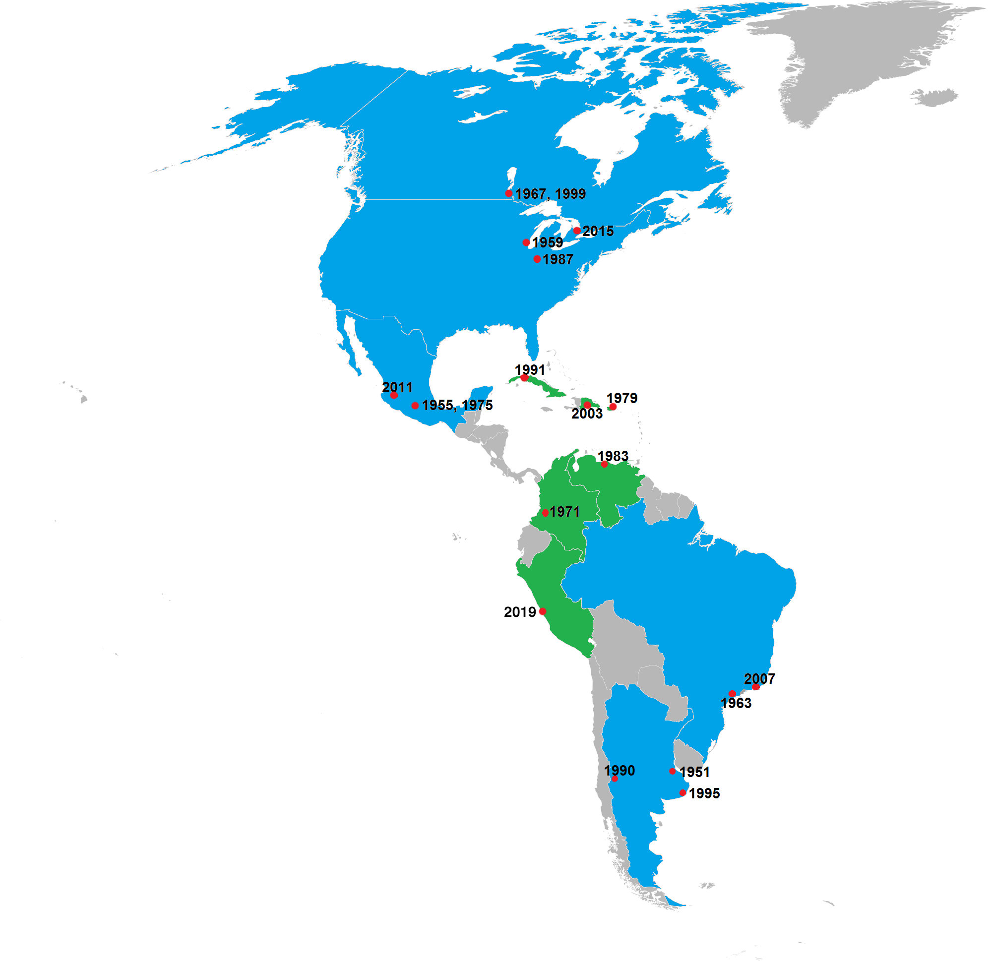 Locations of the Pan American Games: Green = Countries that have hosted one Pan American Games. Blue = Countries that have hosted two or more Pan American Games. Red dots = Cities that have hosted Pan American Games.